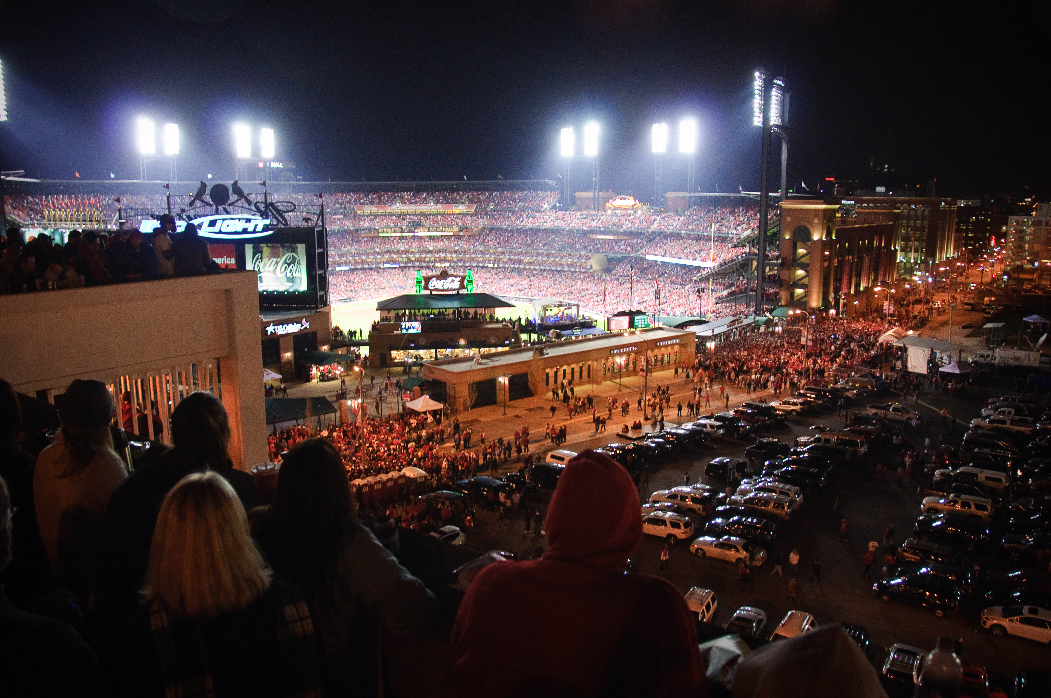 This photo was taken October 28, 2011 in Downtown, St. Louis, MO, US, using a Nikon D90.